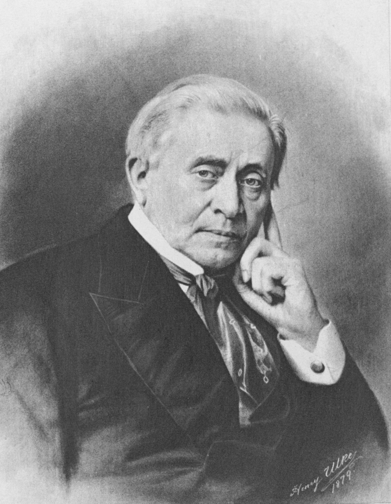 Portrait of Joseph Henry